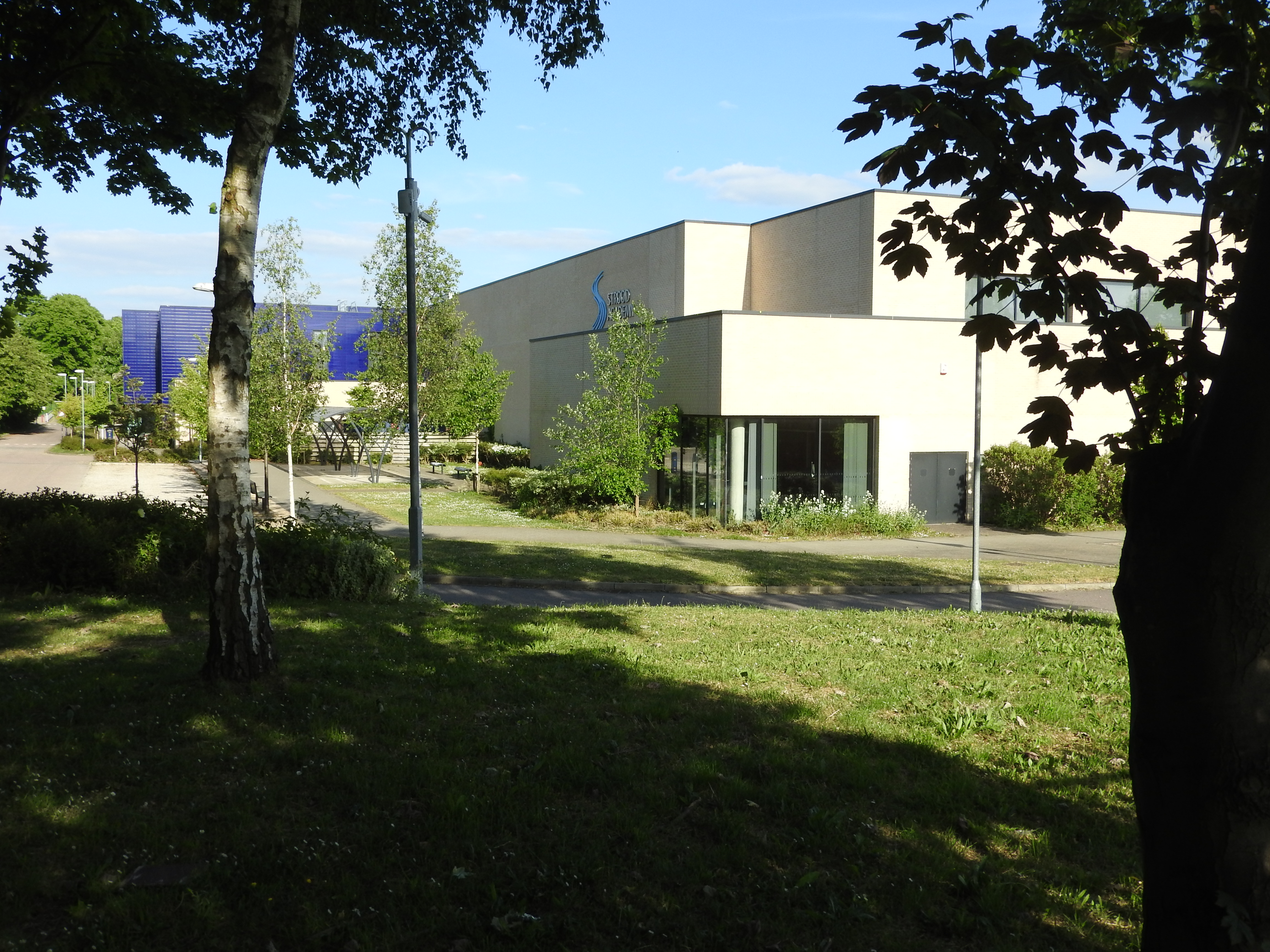 Strood Academy by Nicholas Hare Architects, also the offices of the Leigh Academies Trust